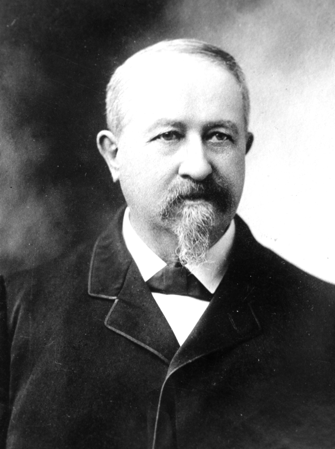 Clarence Dutton (1841 - 1912), from the NOAA Photo Library [1]